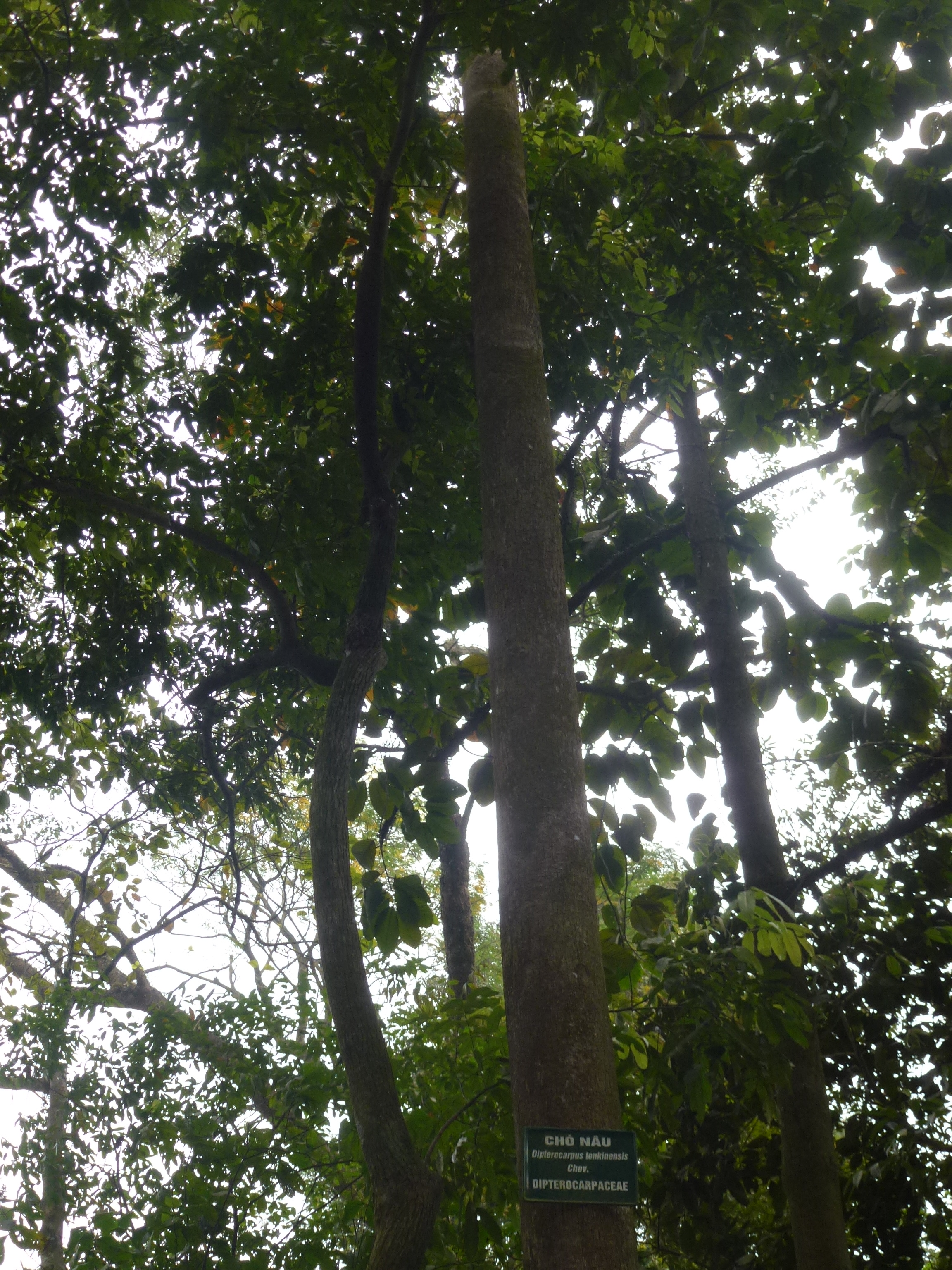 Dipterocarpus tonkinensis in Vietnam